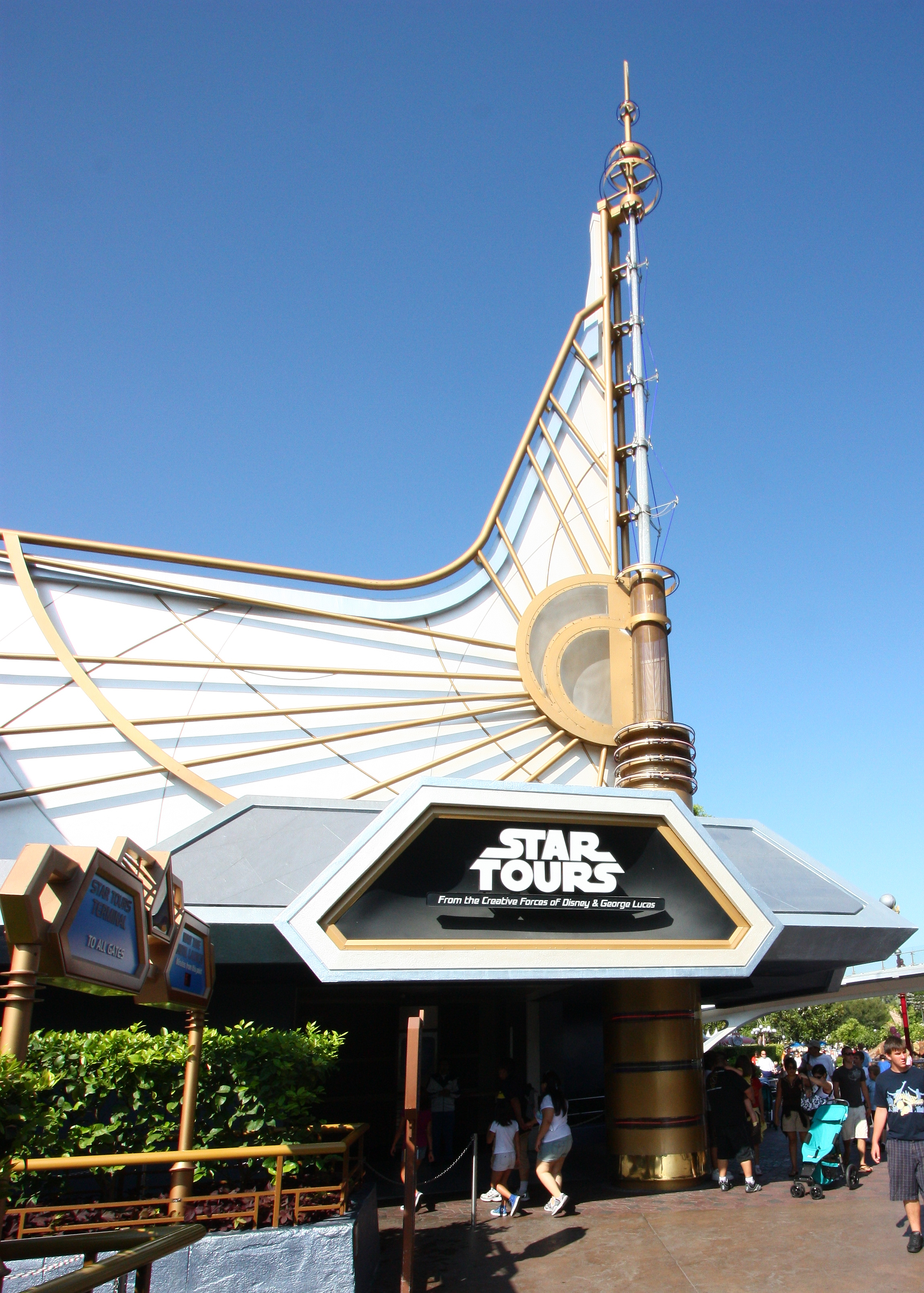 Main entrance to the Star Tours attraction at Disneyland Resort, Anaheim CA